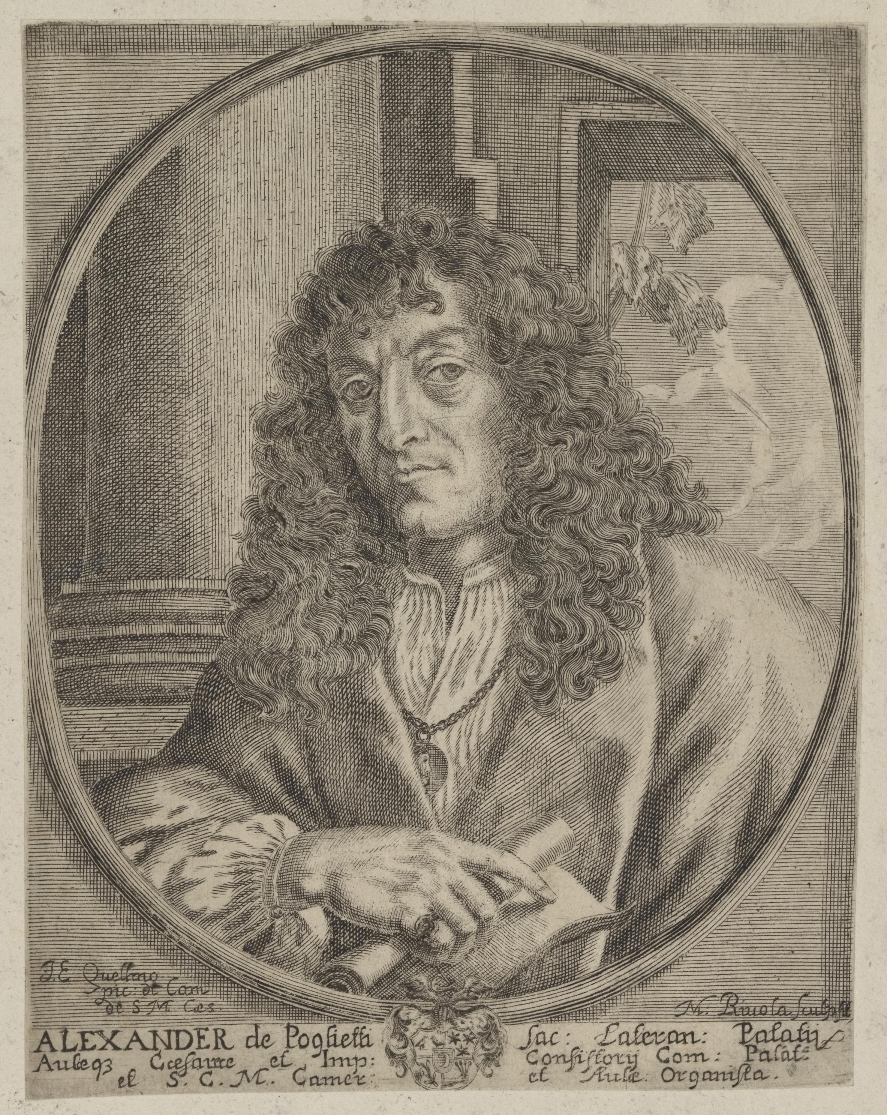 Depicted person: Alessandro Poglietti